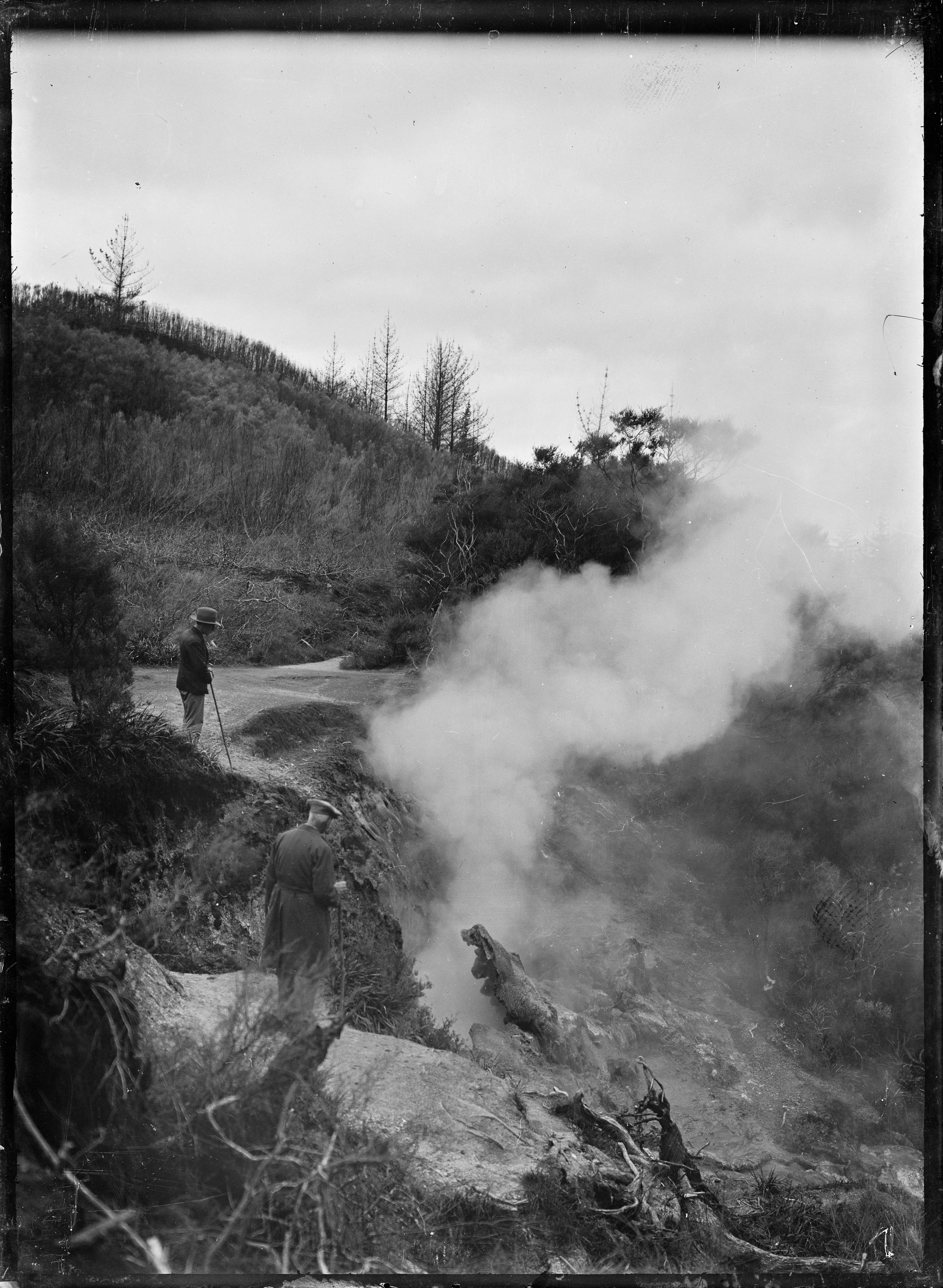 View of the Dragon's Mouth geyser at Wairakei. Two men are standing on the bank beside the geyser, with a small pool centre left. Photographed by Albert Percy Godber in 1928.